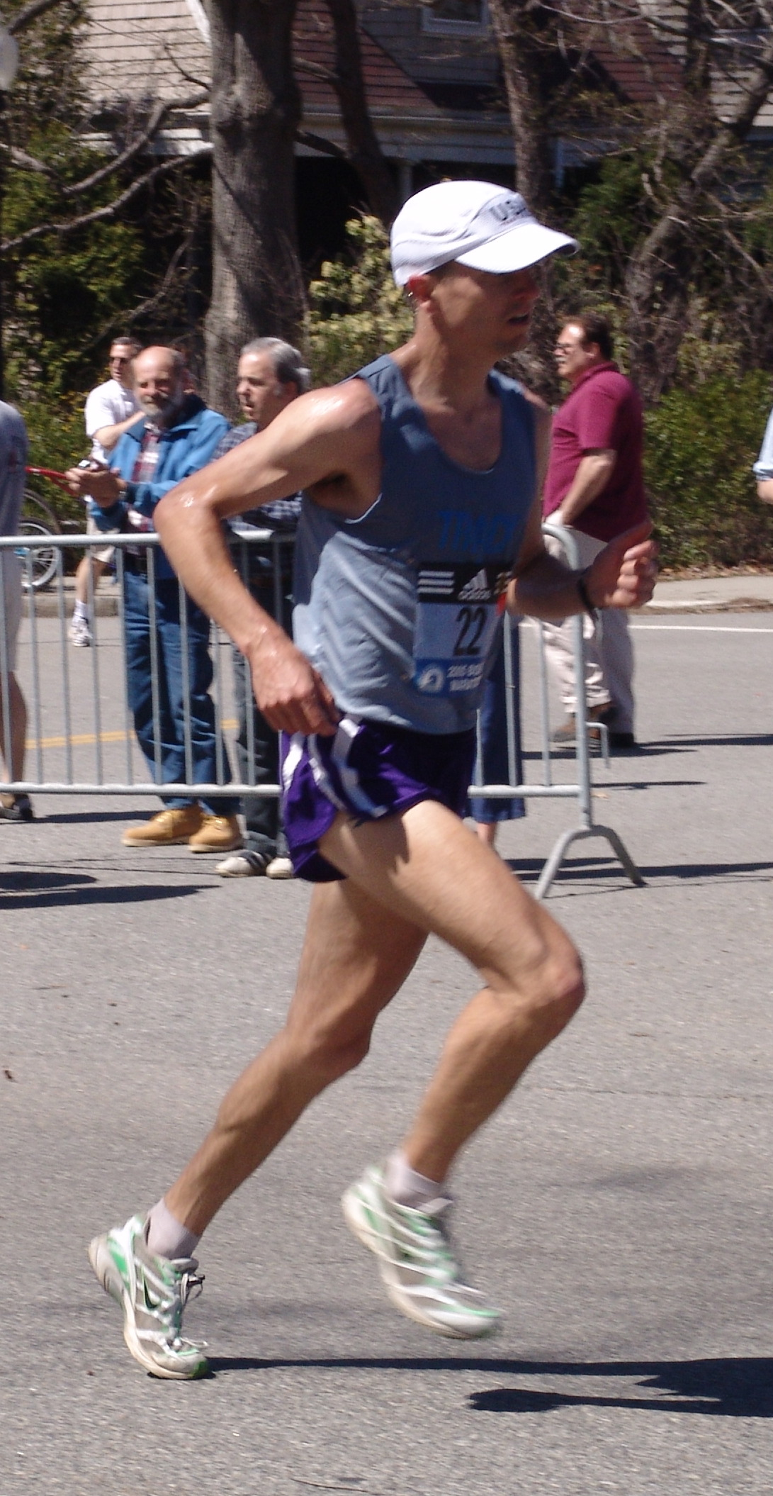 Peter Gilmore attacking Heartbreak Hill in the Boston Marathon 2005. Gilmore finished 10th with an overall time of 2:17:32